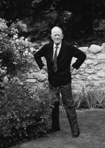 Oskar Kokoschka